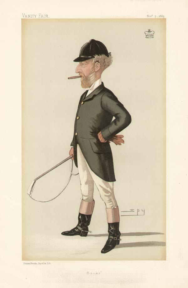 Statesmen No.477: Caricature of Sir Robert Harvey, 1st Baronet, of Langley Park. Caption reads: "Bucks"